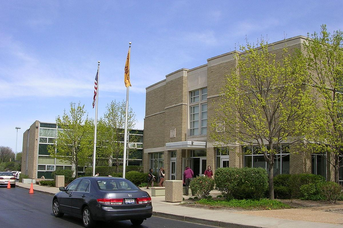 Photo of the front of Loyola Academy. Photo taken by me.